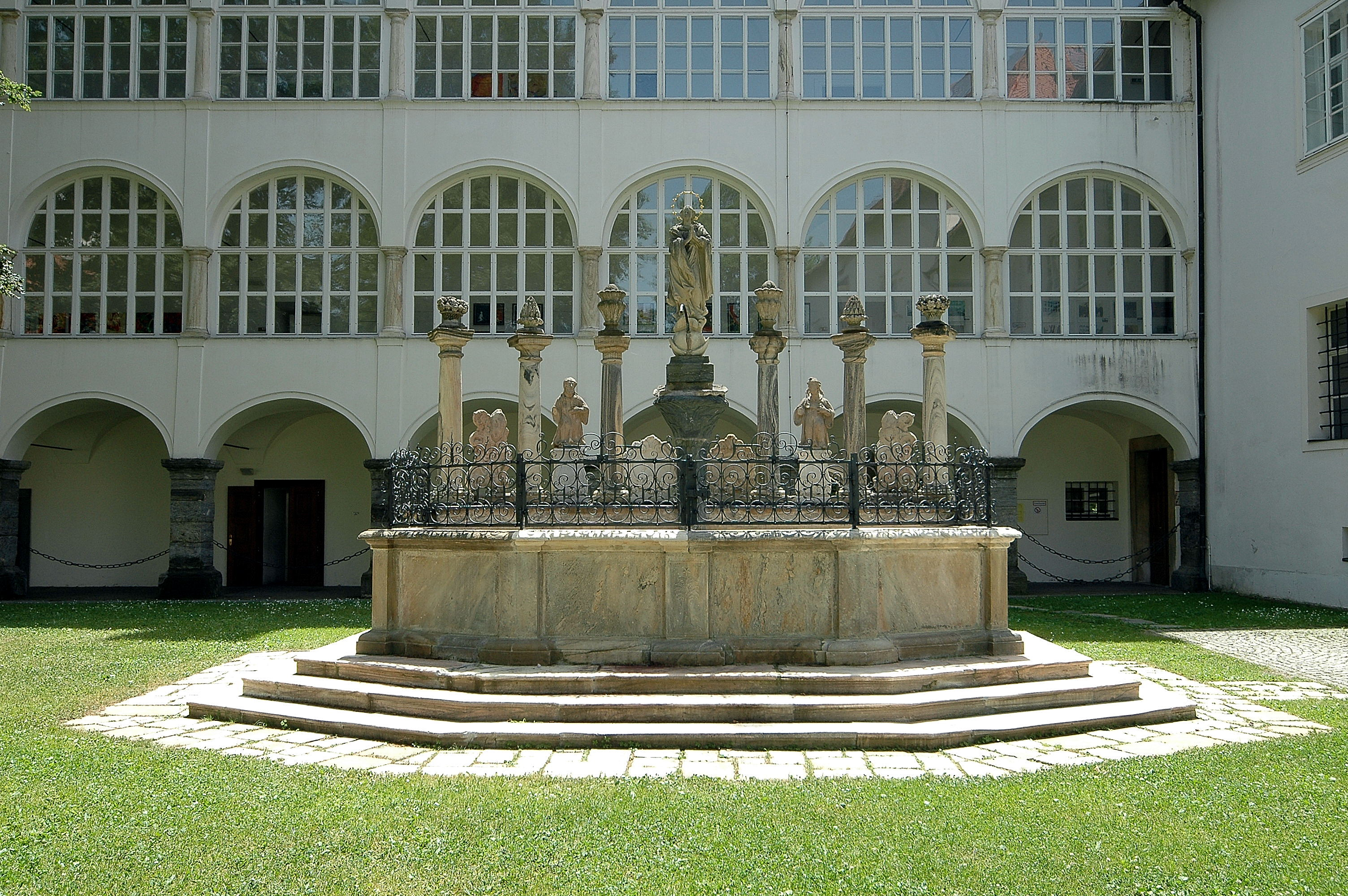 Mary`s fountain at Mary`s yard of the cistercian monastery, in the 13th district Viktring, municipality Klagenfurt on the Lake Woerth, district Klagenfurt Land, Carinthia, Austria, EU